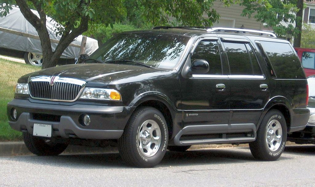 1998-2000 Lincoln Navigator photographed in USA.